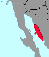 Seri language area